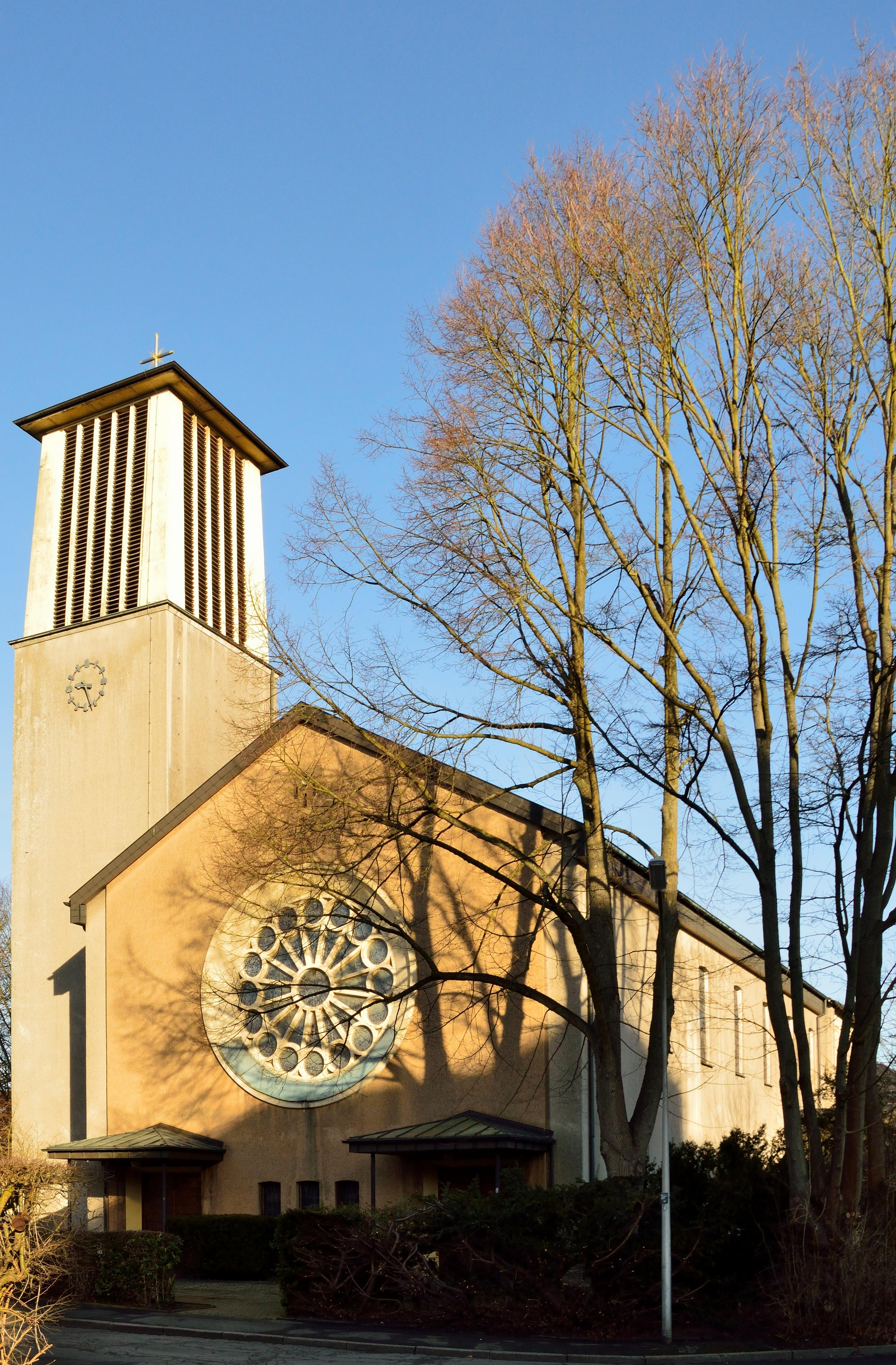 Church Herz Jesu in Witten, Germany